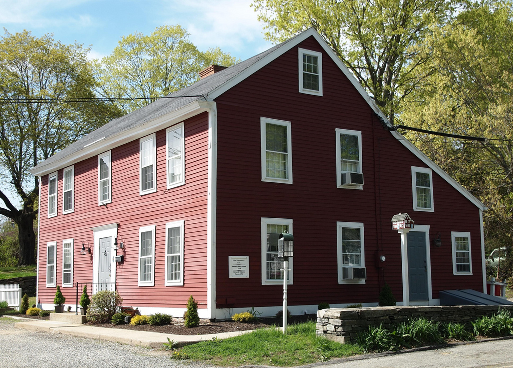 Connecticut - New London County - Norwich National Register of Historic Places #82001006 NRIS 2011 May 01 at 199 West Town St; view NW edit: crop Built 1738 or earlier. Currently law offices